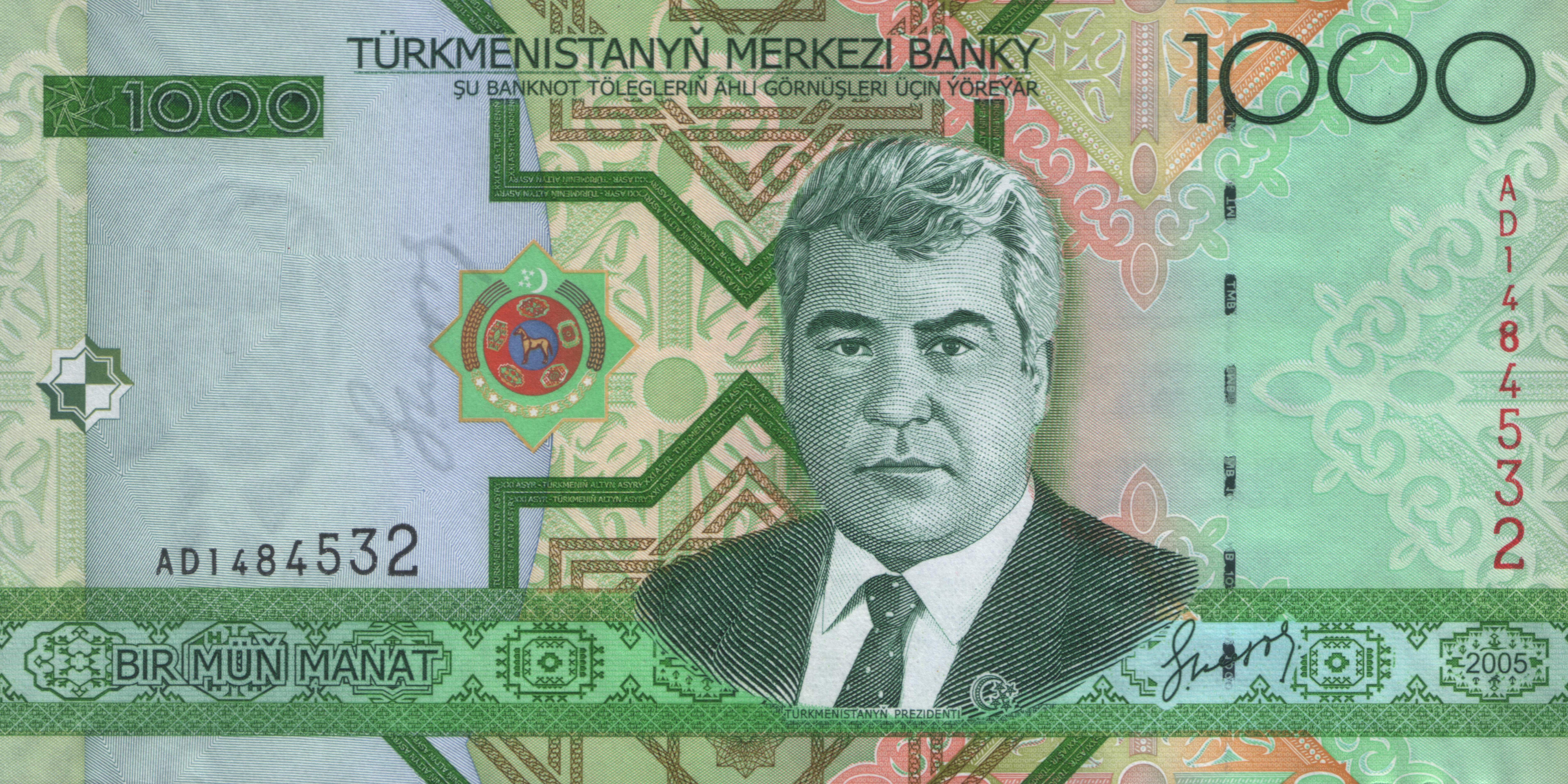 1000 manats of Turkmenistan (2005)